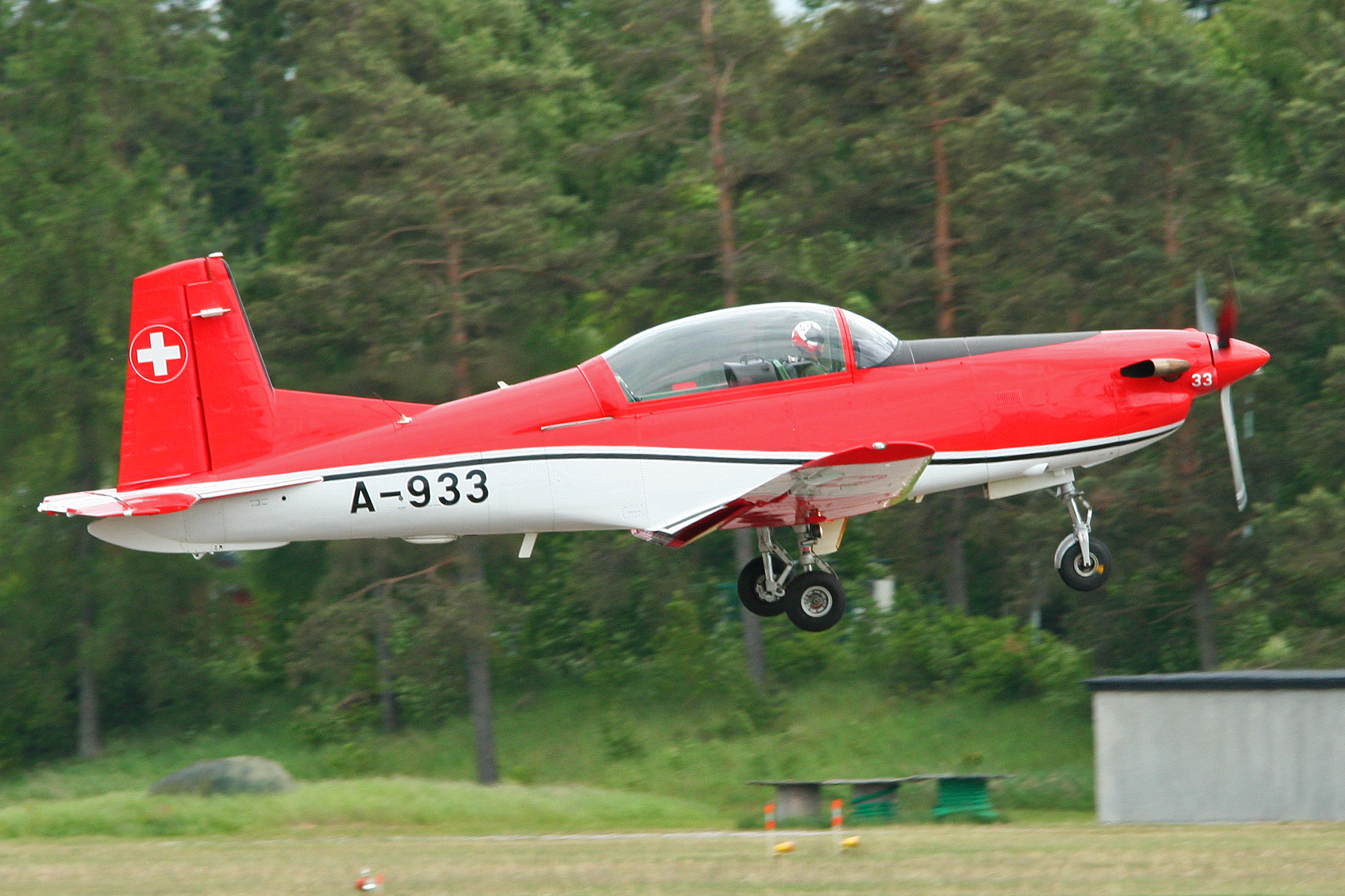 Swiss AF trainer operated by the Pilotenrukrute and seen here taking off as part of the 9-ship 'PC-7 Team'. msn 341. 2012 Malmen Airshow, Sweden. 03-06-2012